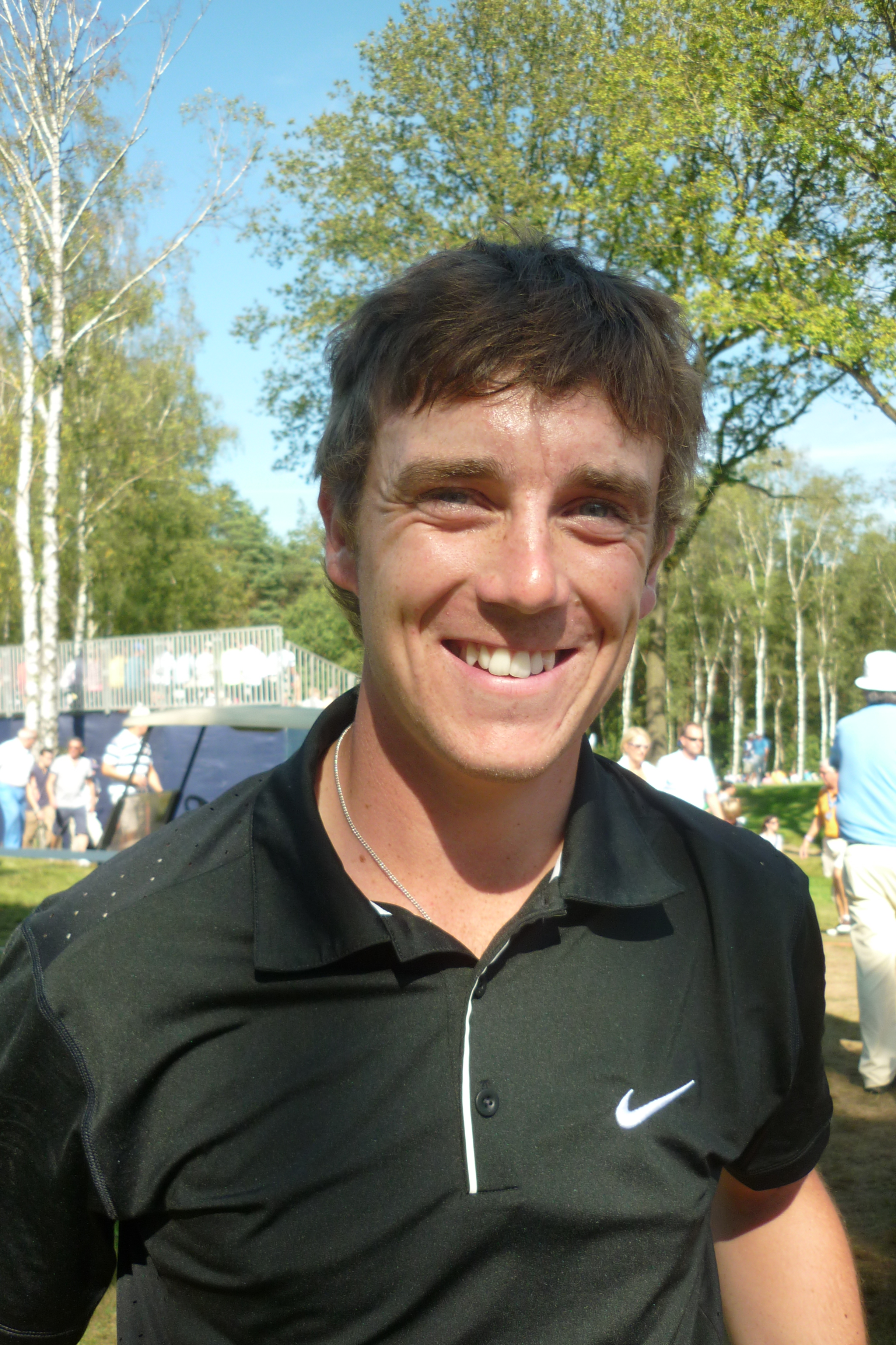 Tommy Fleetwood